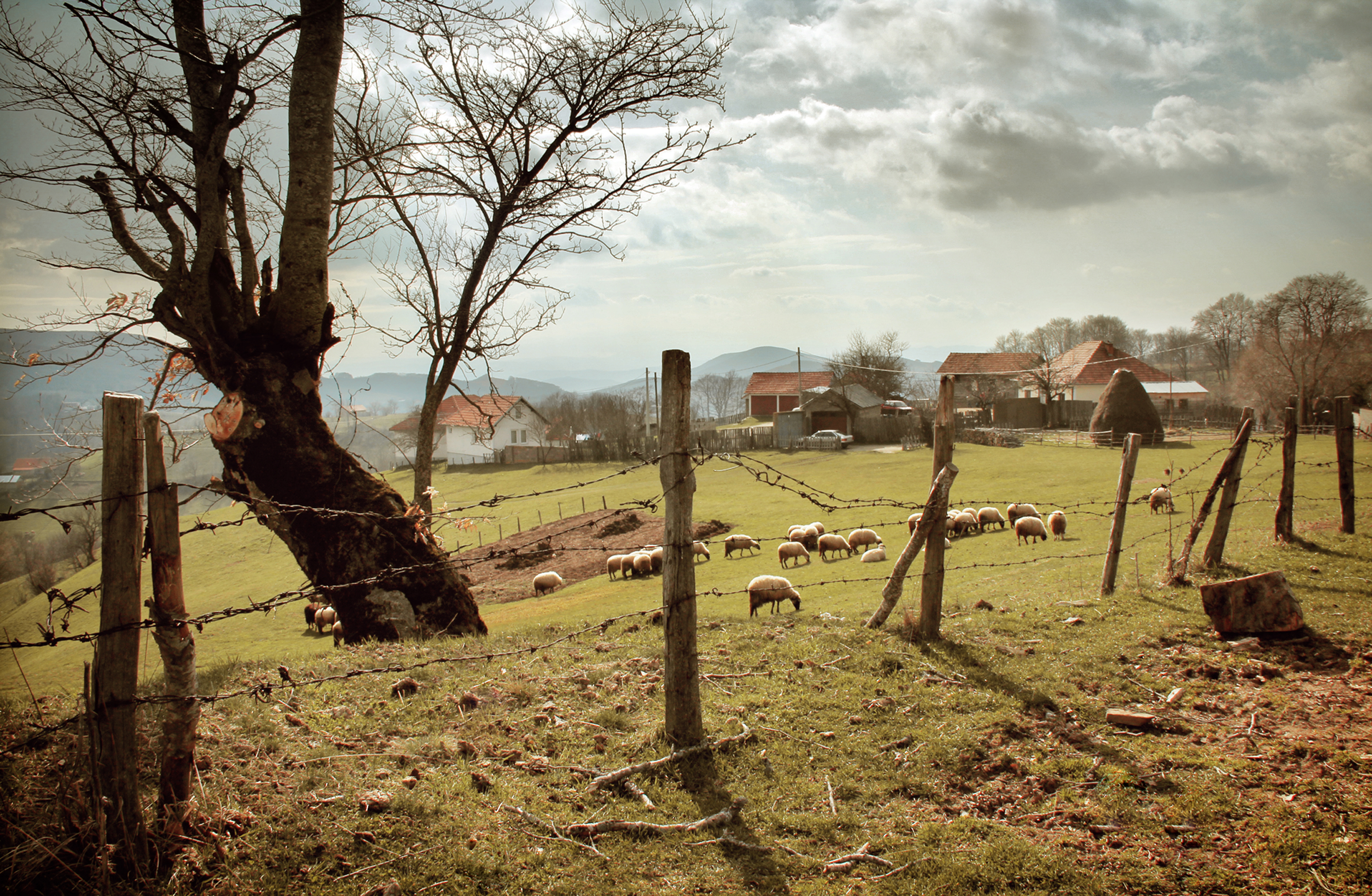 Bajgora village